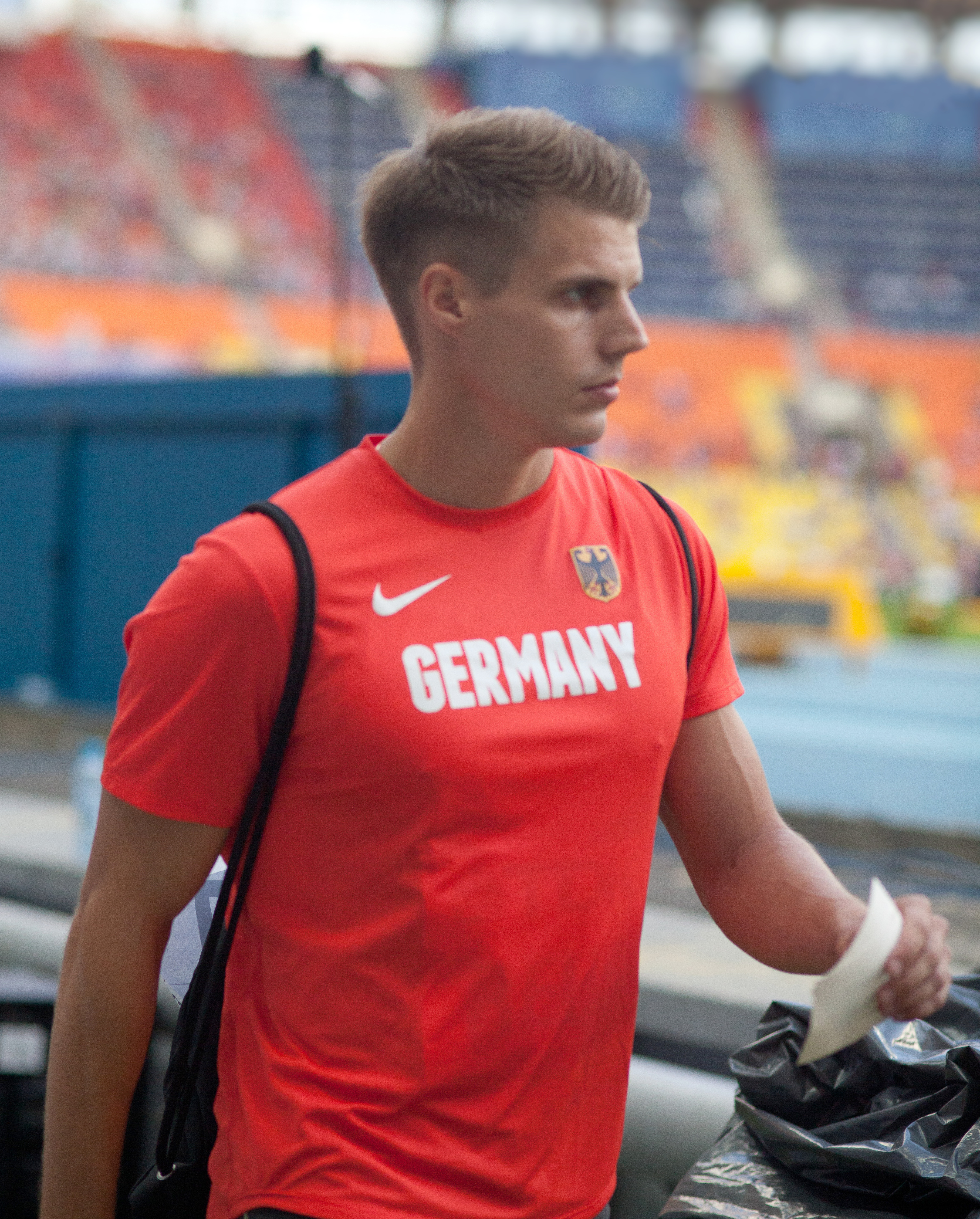 Julian Reus during 2013 World Championships in Athletics in Moscow.